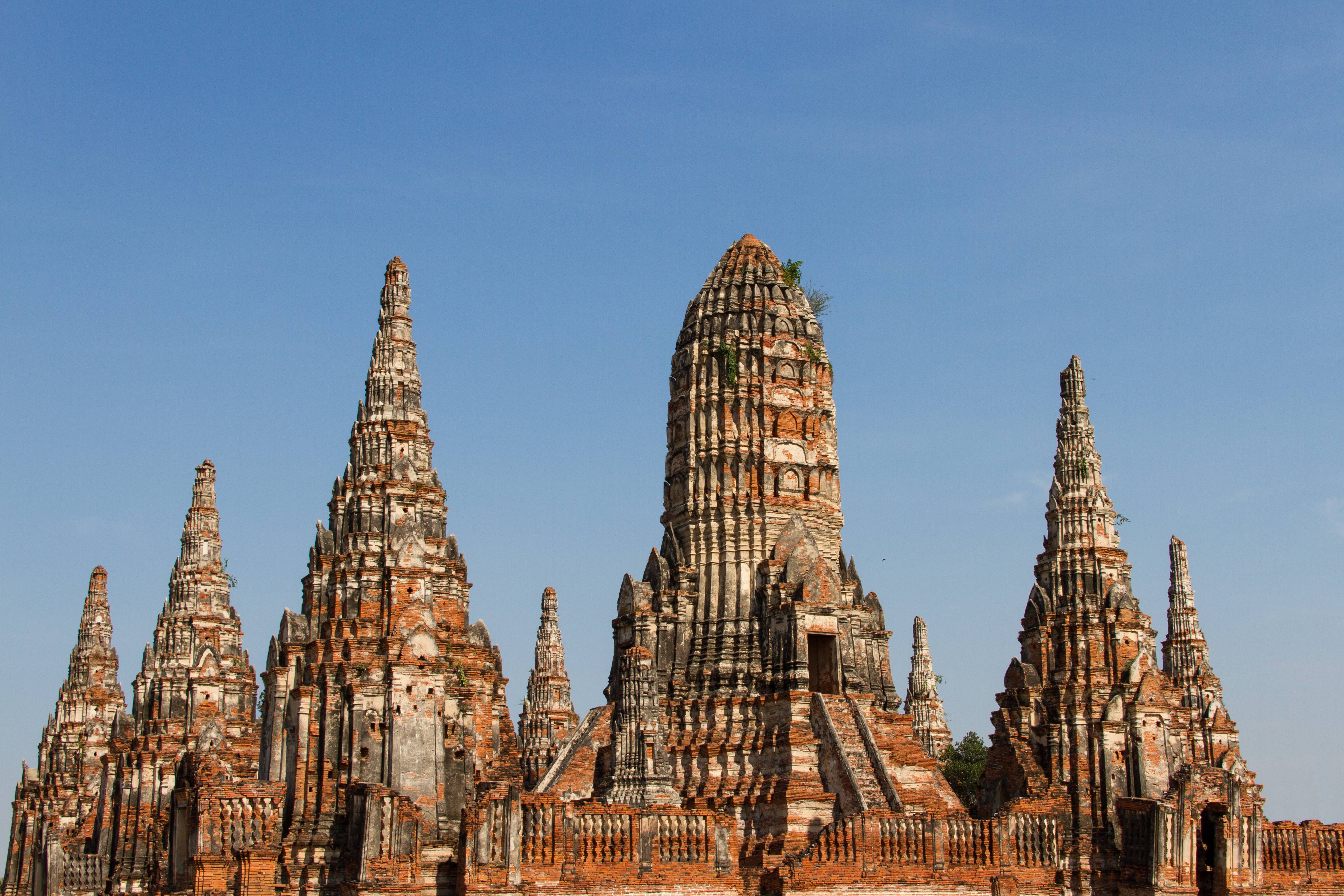 Wat Chai Watthanaram, Ban Pom Subdistrict, Phra Nakhon Si Ayutthaya District, Phra Nakhon Si Ayutthaya Province